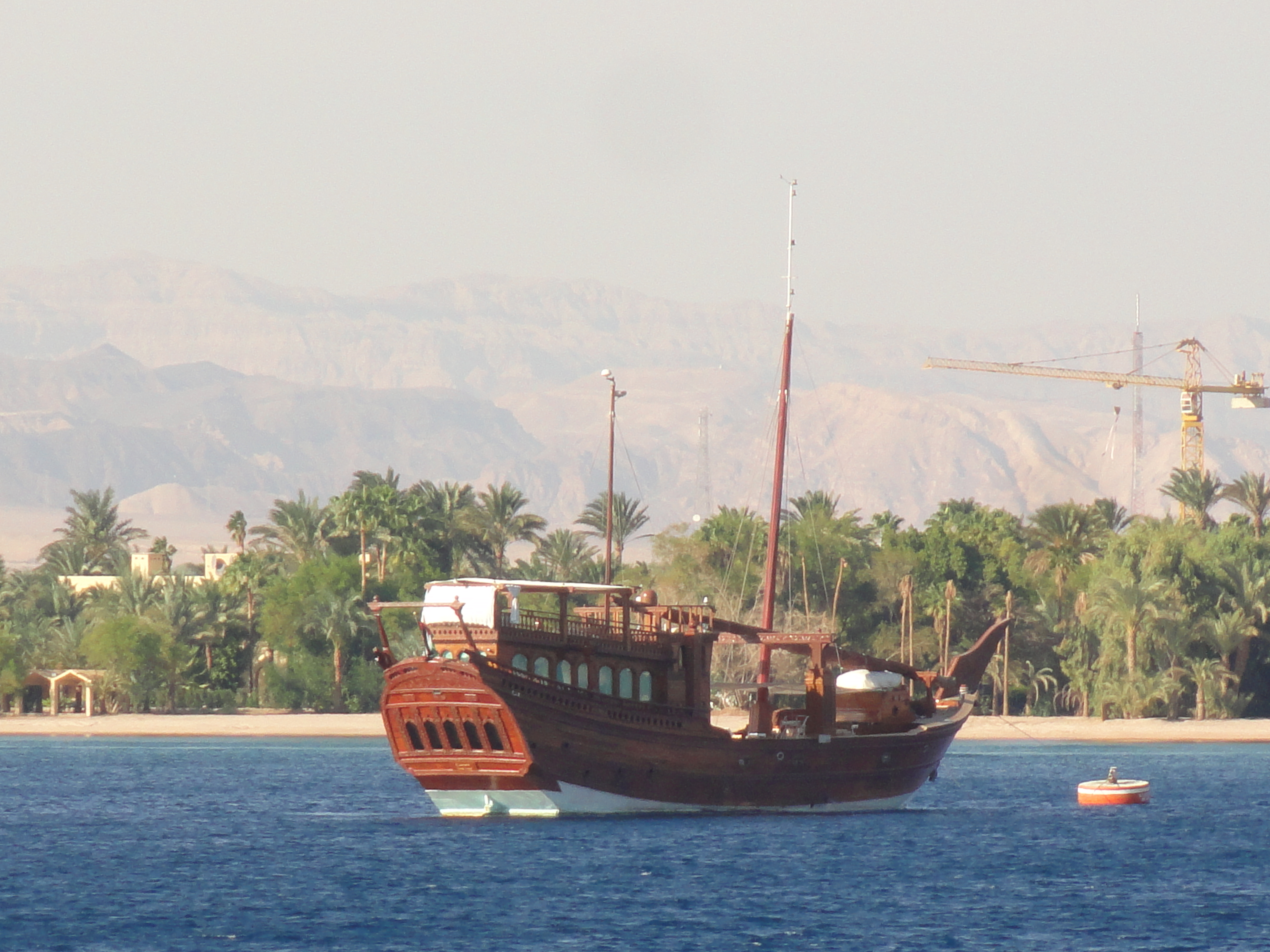 Old Port in Aqaba, Jordan